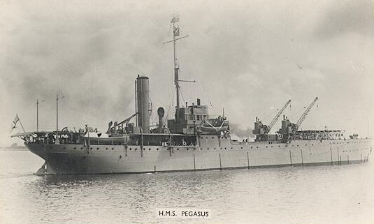 Ark Royal (II) 1914 year